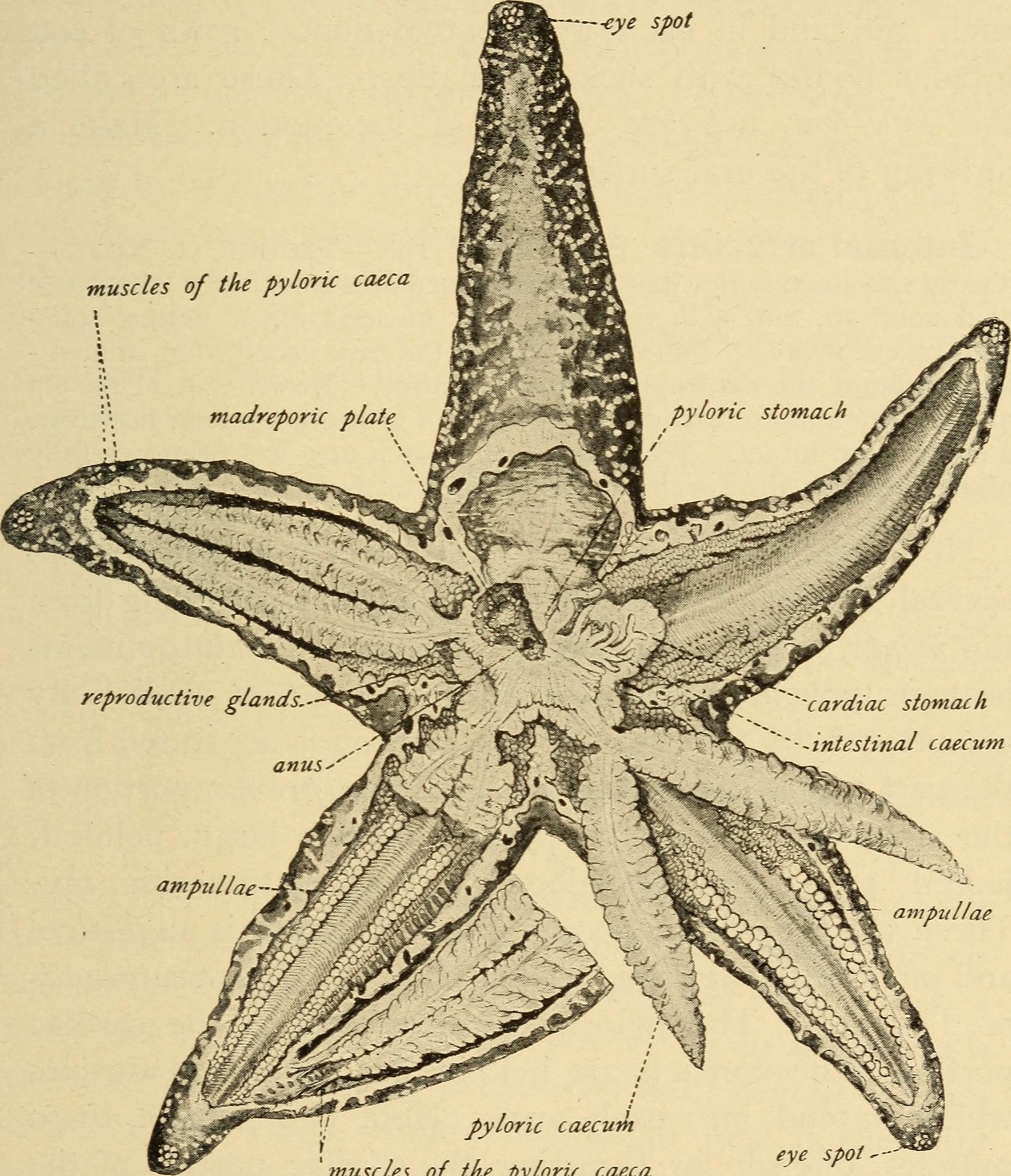 Dissection of starfish Asterias sp. Title: Elementary zoology Year: 1902 (1900s) Authors: Kellogg, Vernon L. (Vernon Lyman), 1867-1937 Subjects: Zoology Publisher: New York : H. Holt and company Text Appearing Before Image: BRANCH ECHINODERMATA: STARFISHES, ETC. 109 support certain very small pincer-like processes, the pedi- cellarice. In the interspaces between the calcareous plates are soft fringe-like projections of the inner body-lining, the •eye spot muscles of the pyloric caeca Text Appearing After Image: caecum muscles of the pyloric caeca eye spot'--' Fig. 18.—Dissection of a starfish (Asterias sp.). respiratory cceca. Note at the tip of each arm or ray a cluster of small calcareous ossicles and within each cluster a small speck of red pigment, the eye-spot or ocellus.